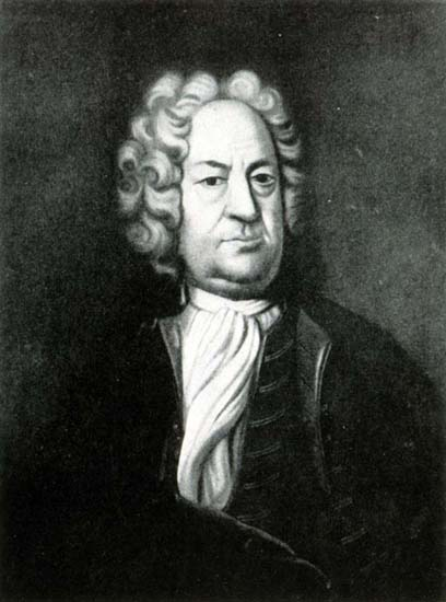 'Berlin' portrait of Johann Sebastian Bach